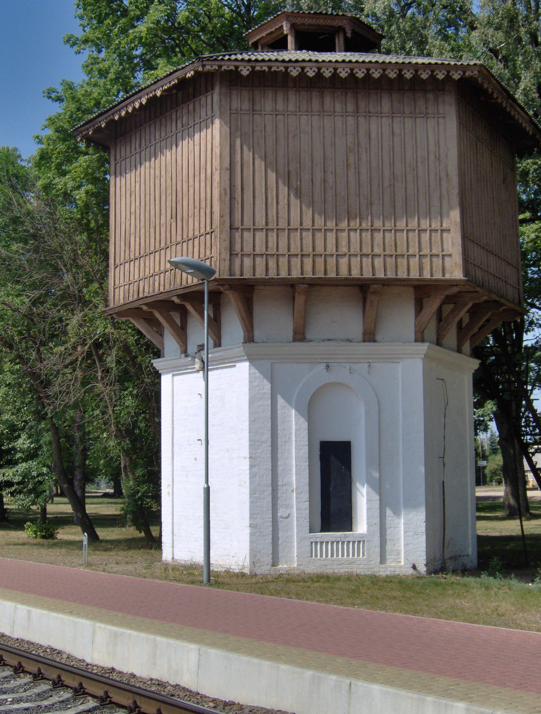 Railway water tower at Ignalina railway station, Lithuania